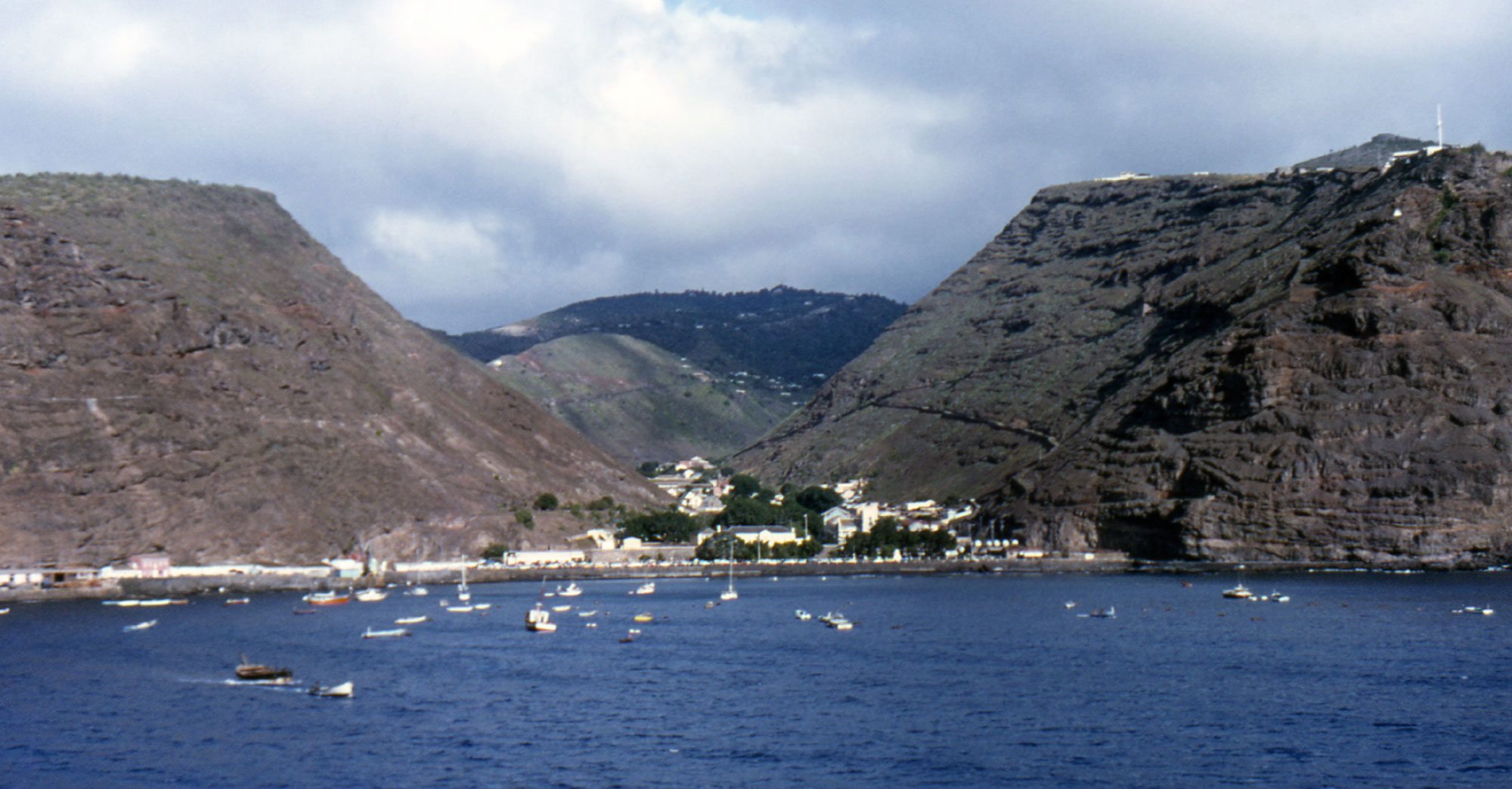 Bay and Jamestown, Island of Saint Helena. Taken off the deck of the RMS St Helena